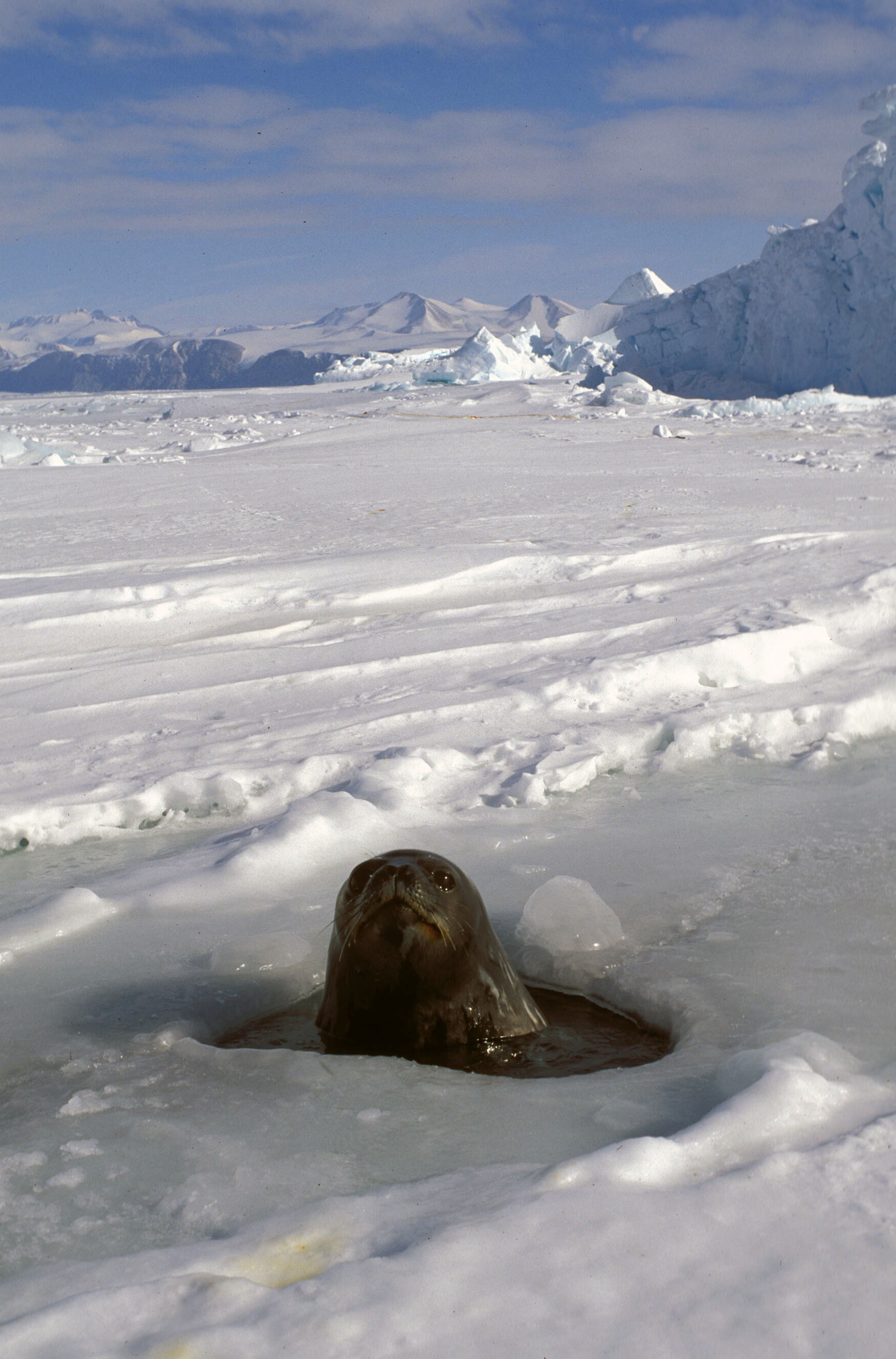 Seal, looking through a breathing hole in the sea ice of the Ross Sea; the Transantarctic Mountains in the background.